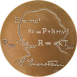 UNESCO’s gold Albert Einstein medal